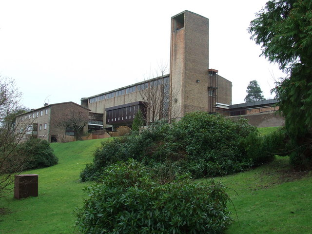 Holy family RC Church & parochial house Imposing building on Parkhill Avenue. Designed by Gillespie, Kidd & Coia, built c.1958.